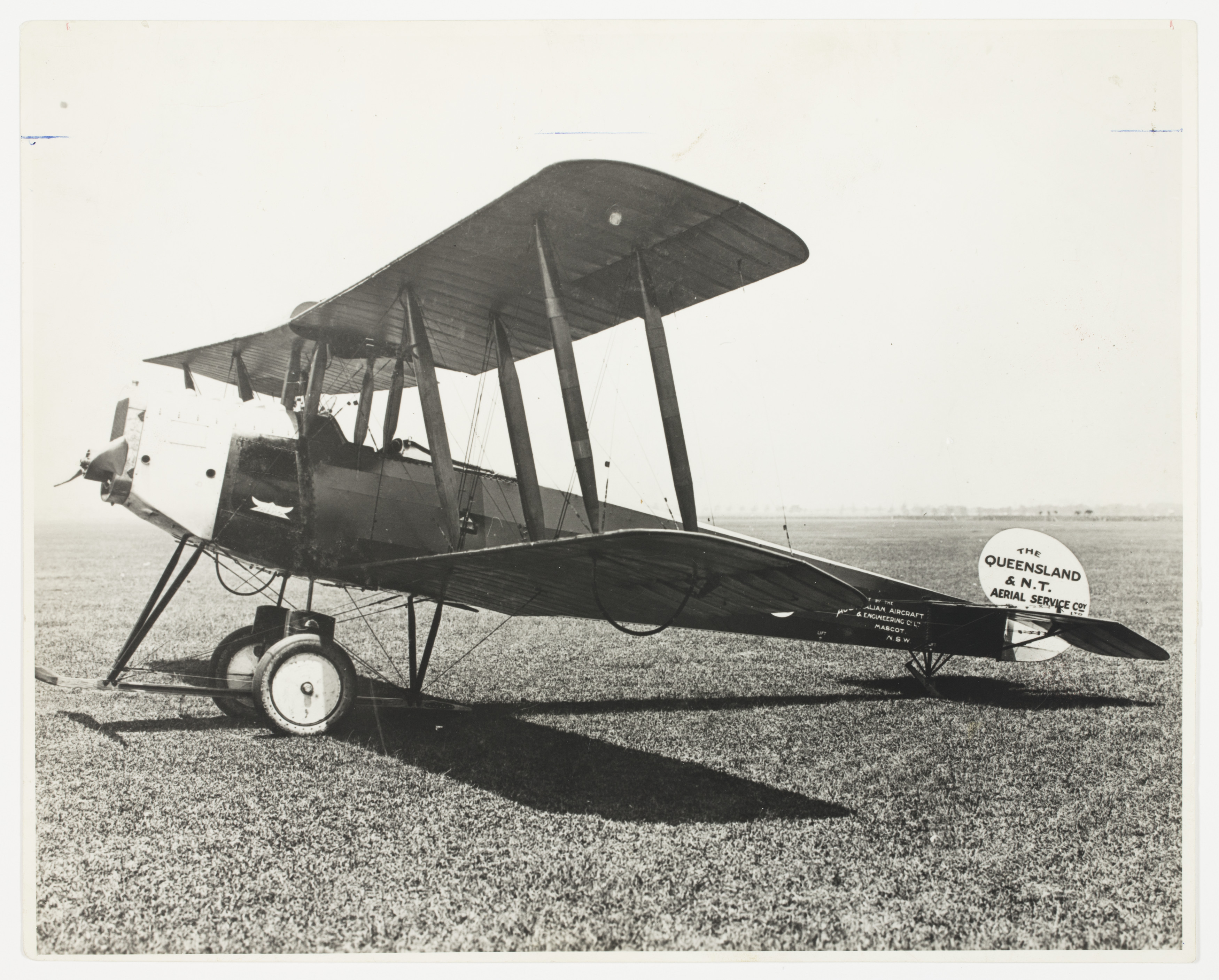 Avro Dyack, the first QANTAS plane, Sir Hudson Fysh photographs used in 'Qantas Rising', ca.1921, from silver gelatin print, State Library of New South Wales PXA 1063 98